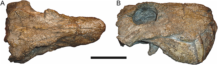 Referred specimen (BP/1/742) of Clelandina rubidgei Broom, 1948 in (A) dorsal and (B) right lateral view. Holotype of Tigrisaurus pricei Broom & George, 1950. Scale bar equals 10 cm.